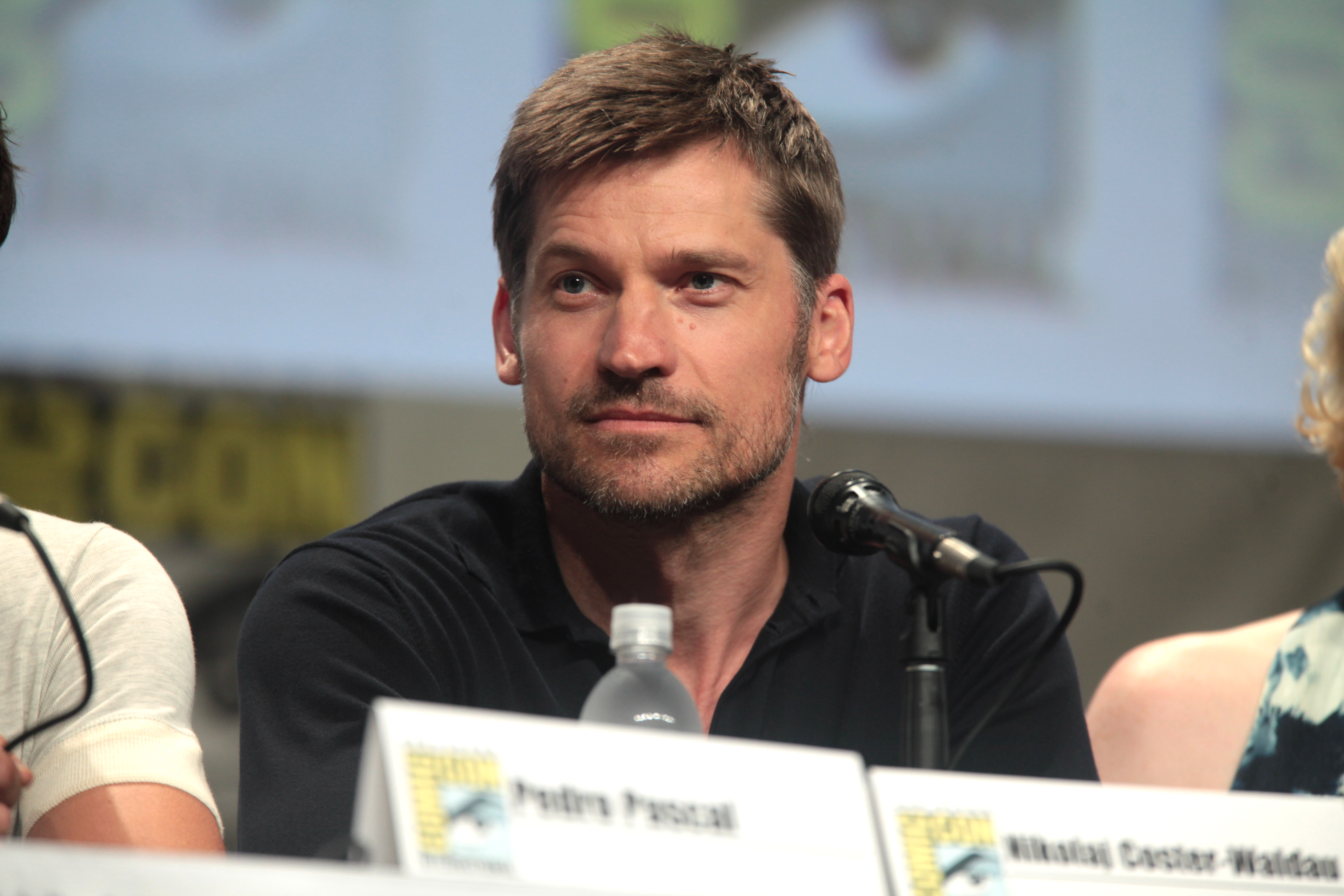 Nikolaj Coster-Waldau speaking at the 2014 San Diego Comic Con International, for "Game of Thrones", at the San Diego Convention Center in San Diego, California.